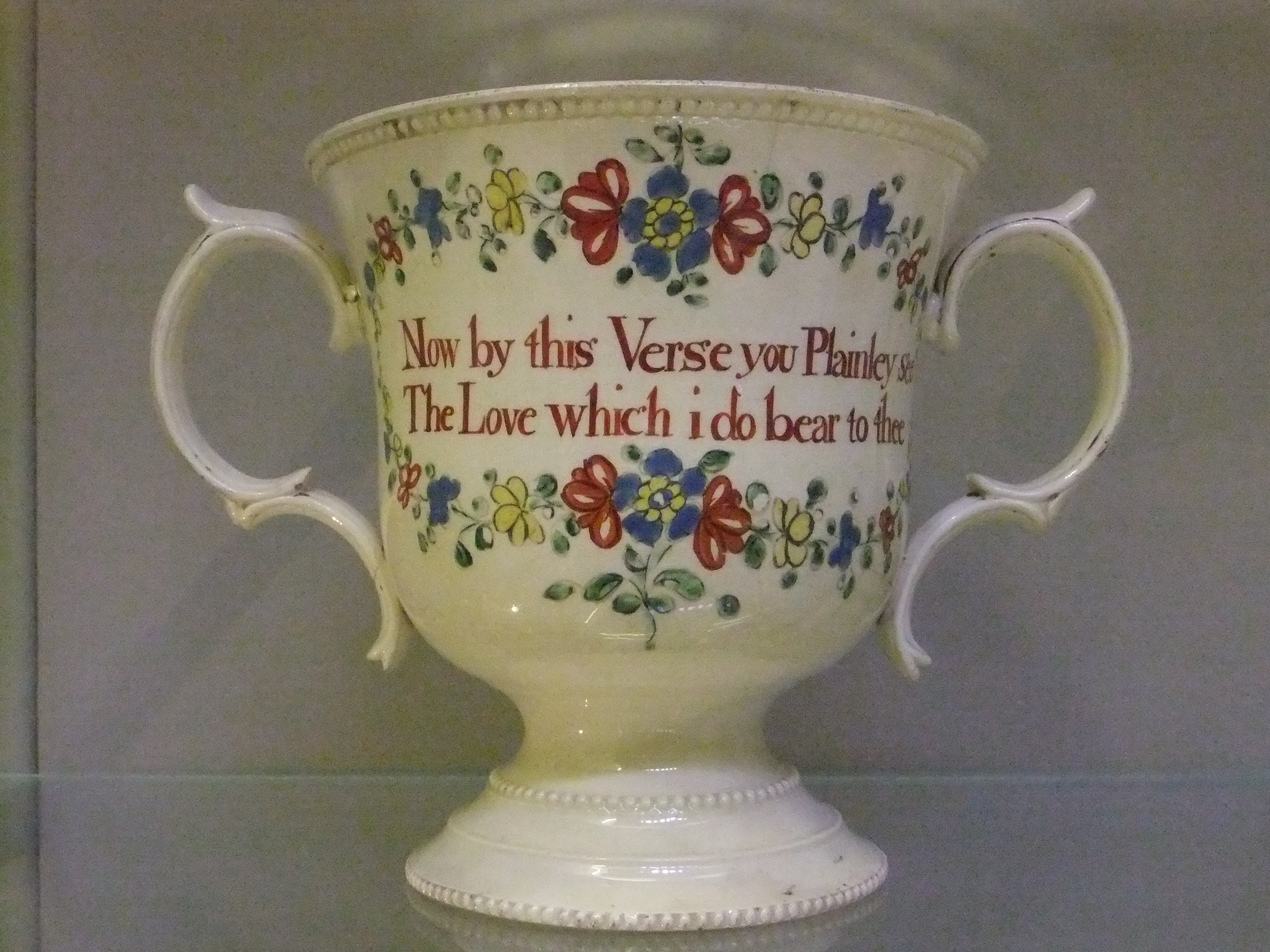 Creamware two-handed loving cup, Harris Museum, Preston. Made in 1774.